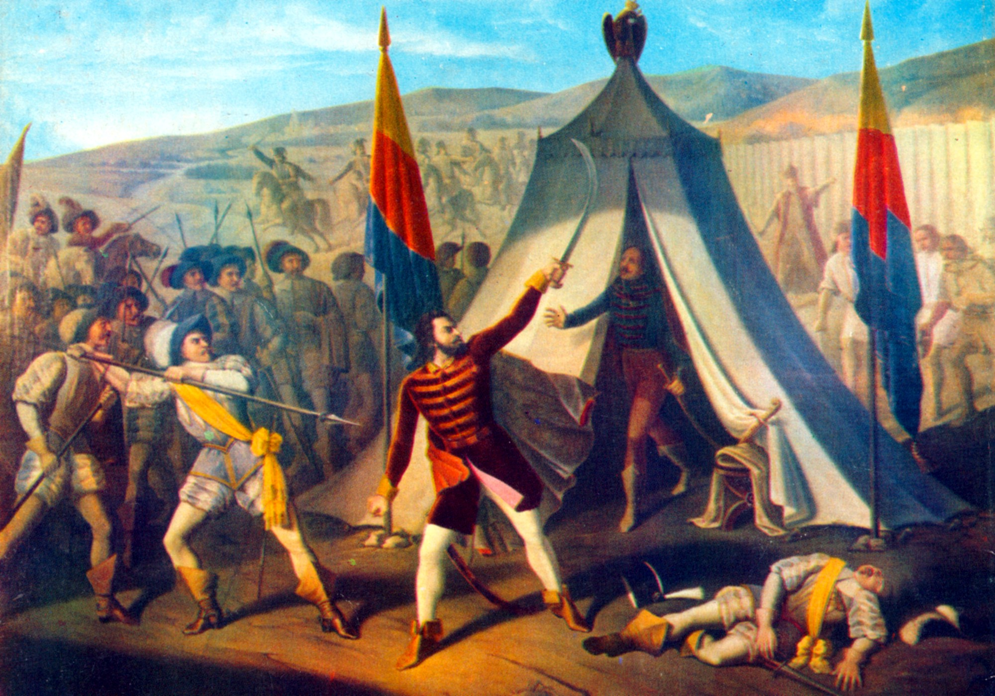 The death of Mihai Viteazul, Muzeul Național de Artă al României